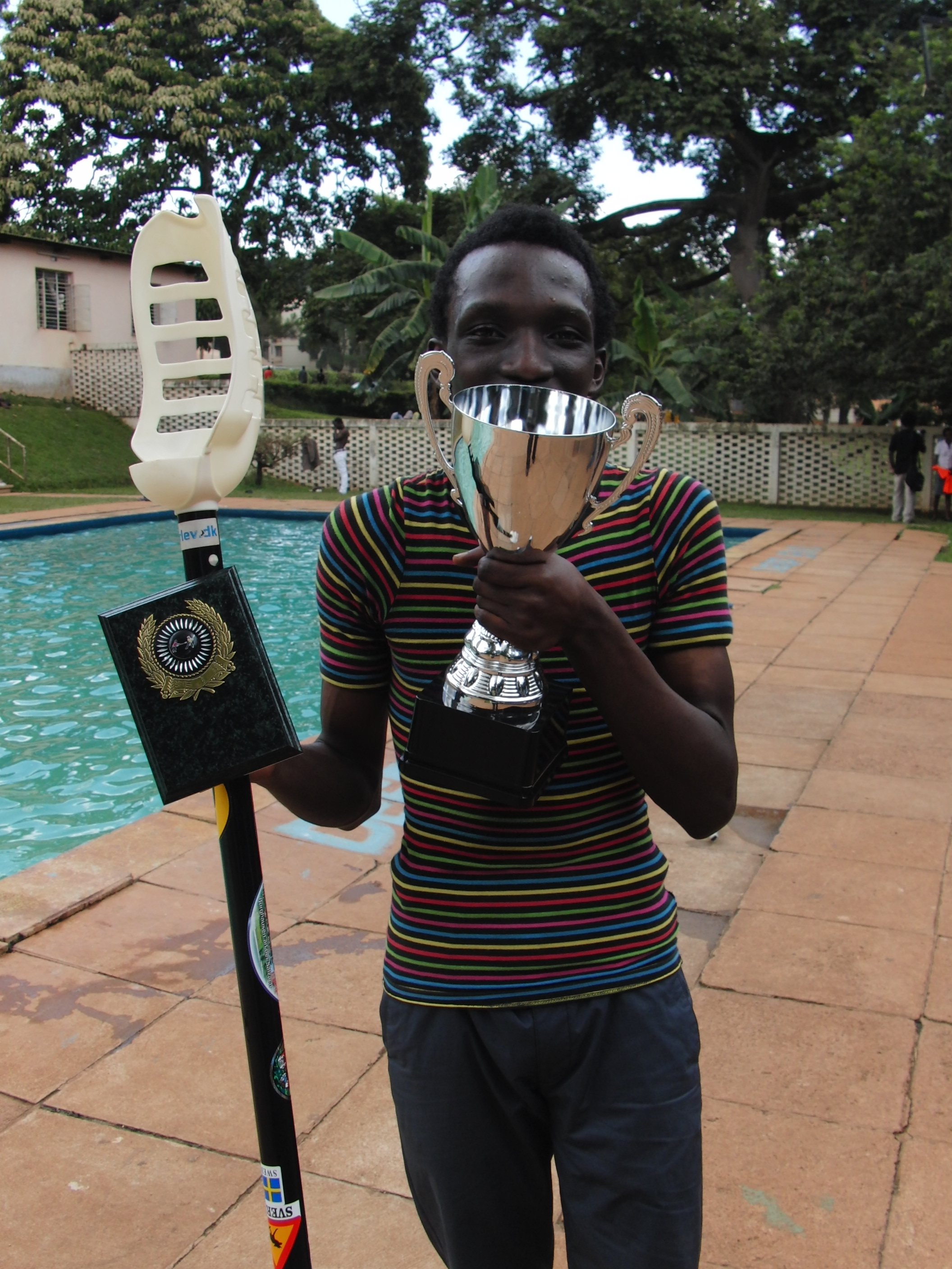 photo of 2012 V2 African Nations Champion Timothy Malingha with trophy